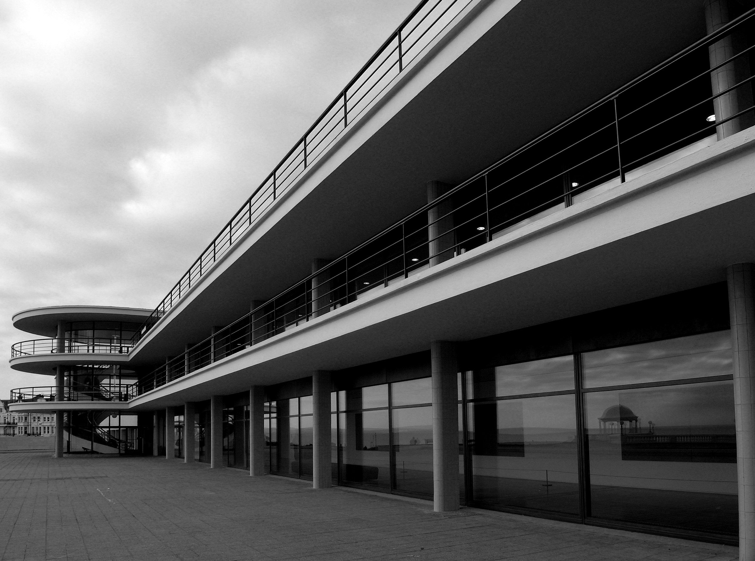 The De La Warr Pavilion, 1935, Bexhill on Sea. Front view of the building. Designed by architects Eric Mendelsohn and Serge Chermayeff.